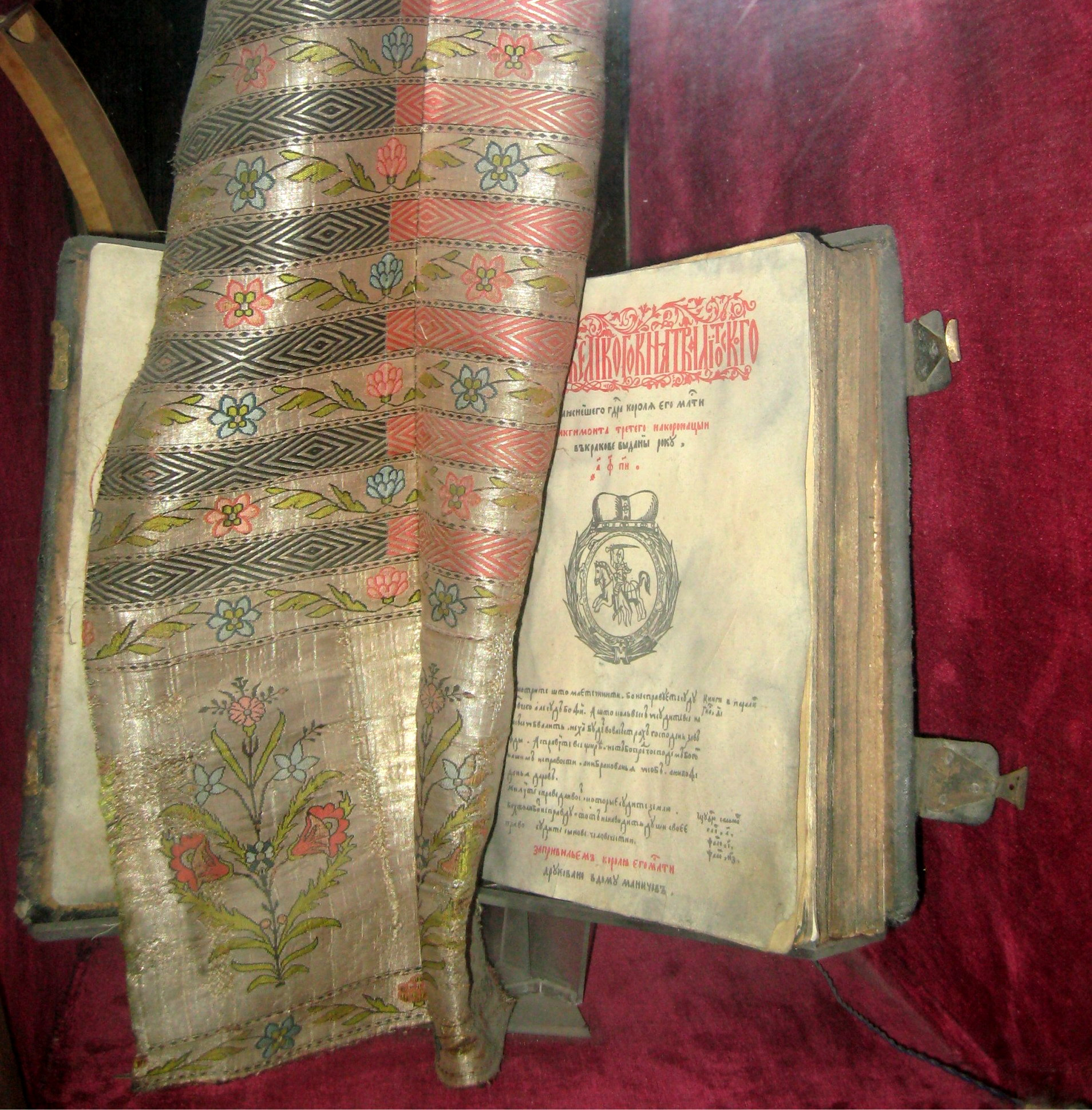 The Third Statute of the Grand Duchy of Lithuania (an original) and a Slutsk belt. Museum of belarusian poet Maksim Bahdanovič, Minsk.